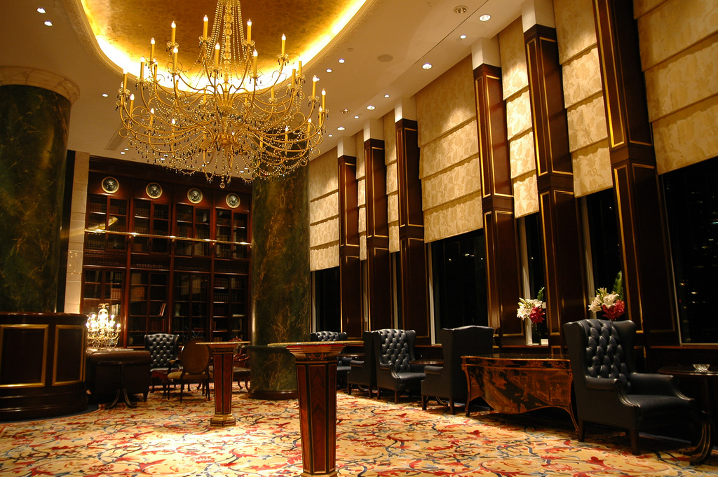 HK Island Shangri-La Hotel 39F Library 港島香格里拉酒店39樓圖書館